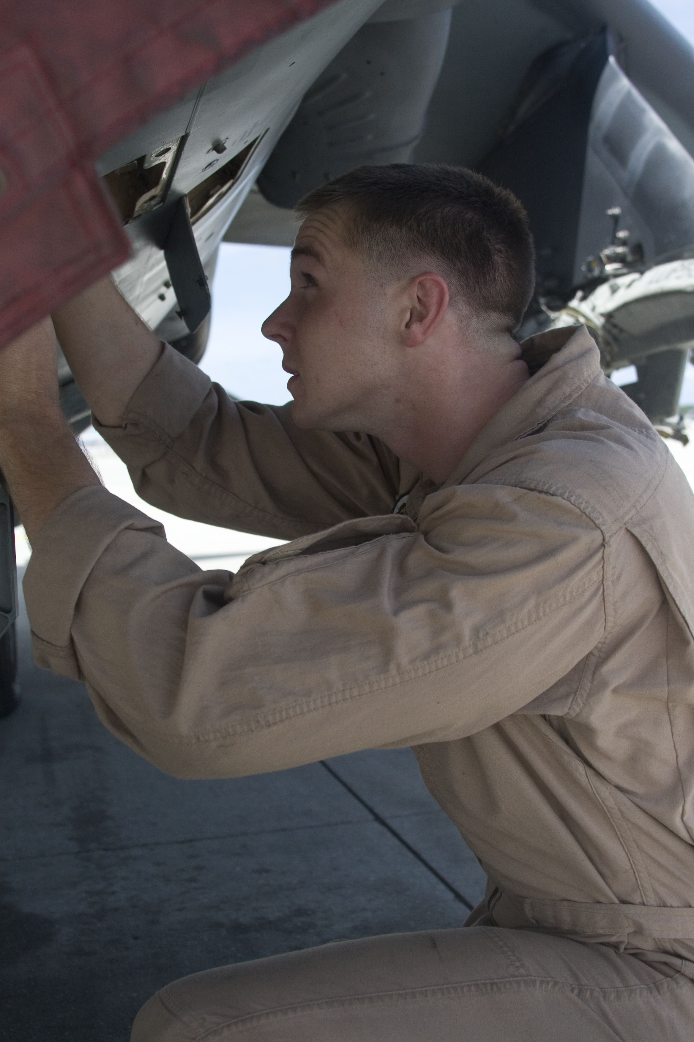 Sgt. Joshua C. Cowan, an AV-8B Harrier powerline mechanic with Marine Attack Squadron 542, inspects a Harrier May 21. Cowan received the VMA-542 Maintenance Marine of the Year award during a ceremony at the Twin Rivers Theater aboard Cherry Point May 13.